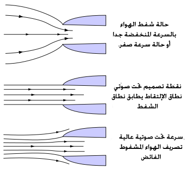 SVG version of